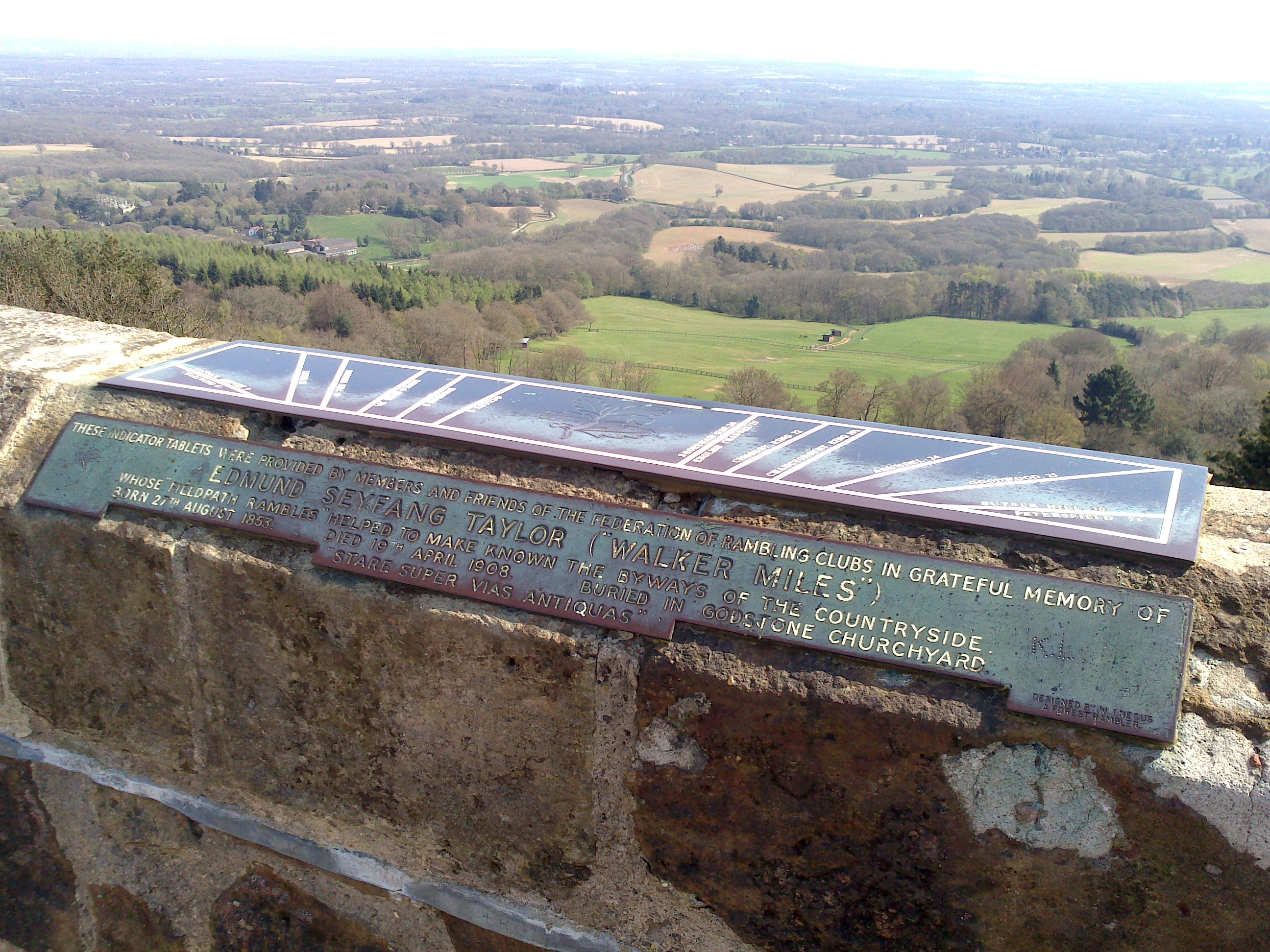 Direction indicator tablets at the top of Leith hill tower. Placed in commemoration of "Walker Miles".